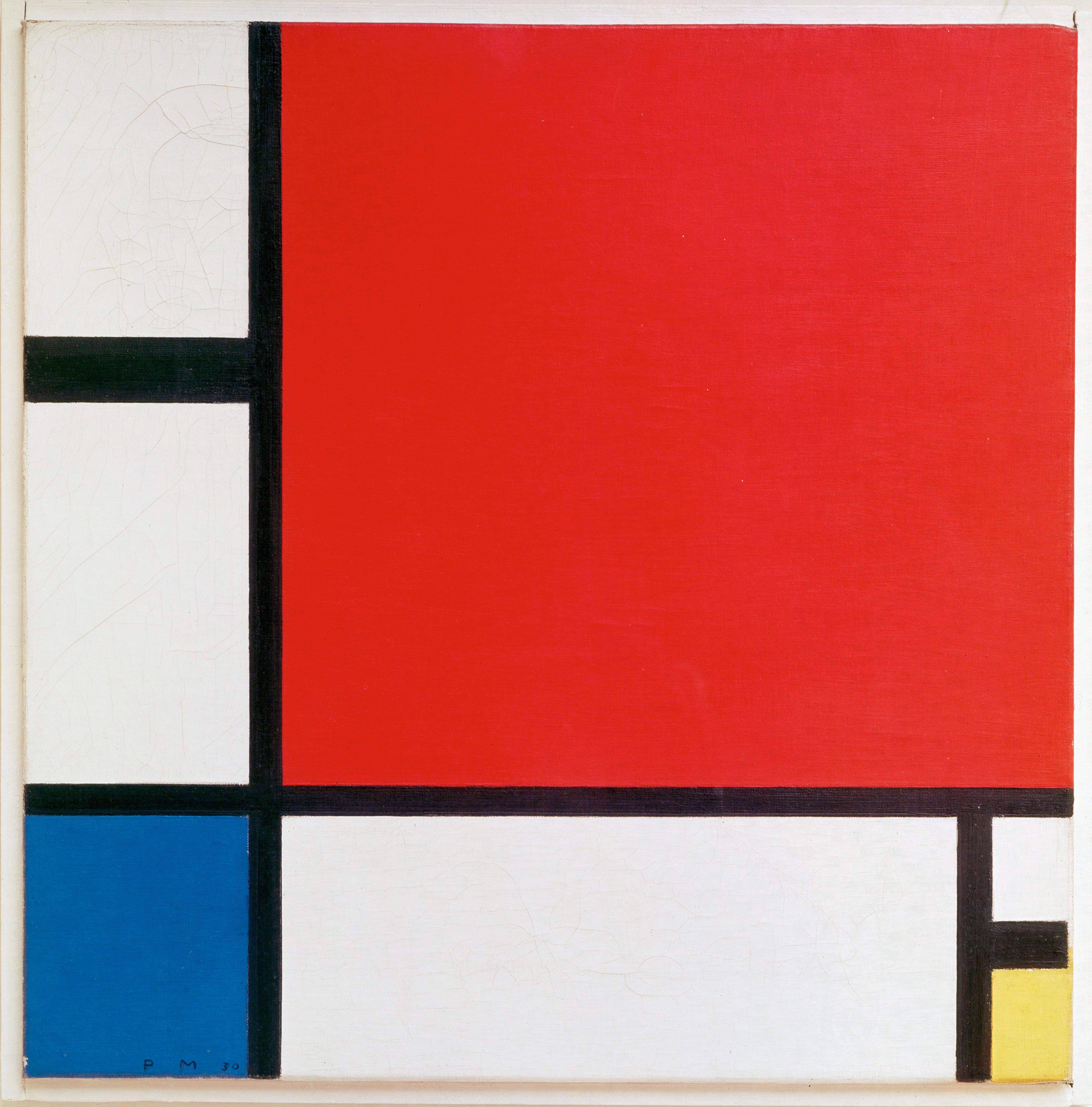 One of Mondrian's best known works, a product of his De Stijl period